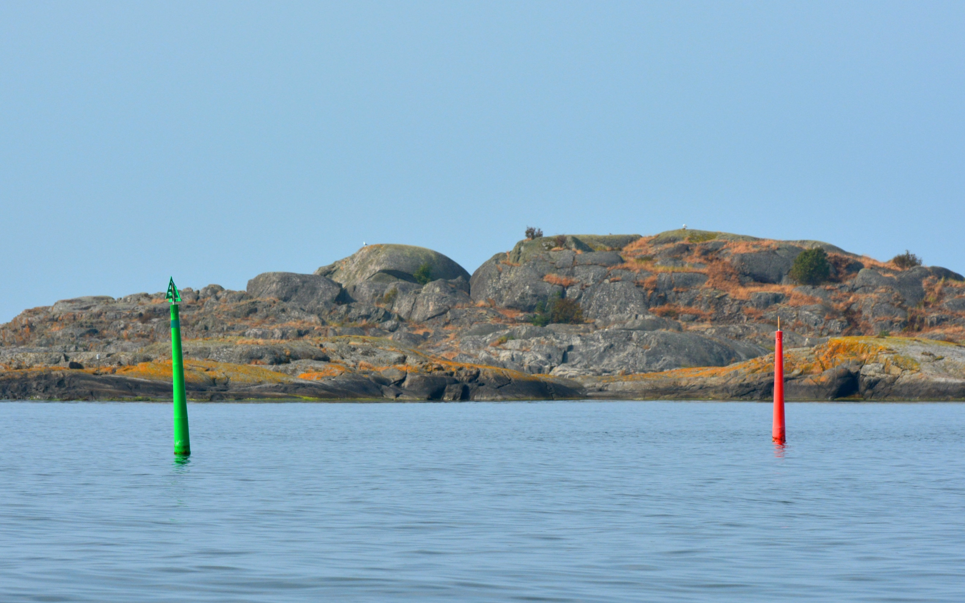 Lateral marks at Galthålet (Boars hole) in Stockholm archipelago, Sweden.